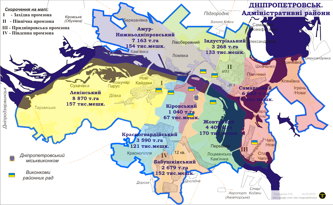 administrative division of Dnipropetrovs'k as of 2010